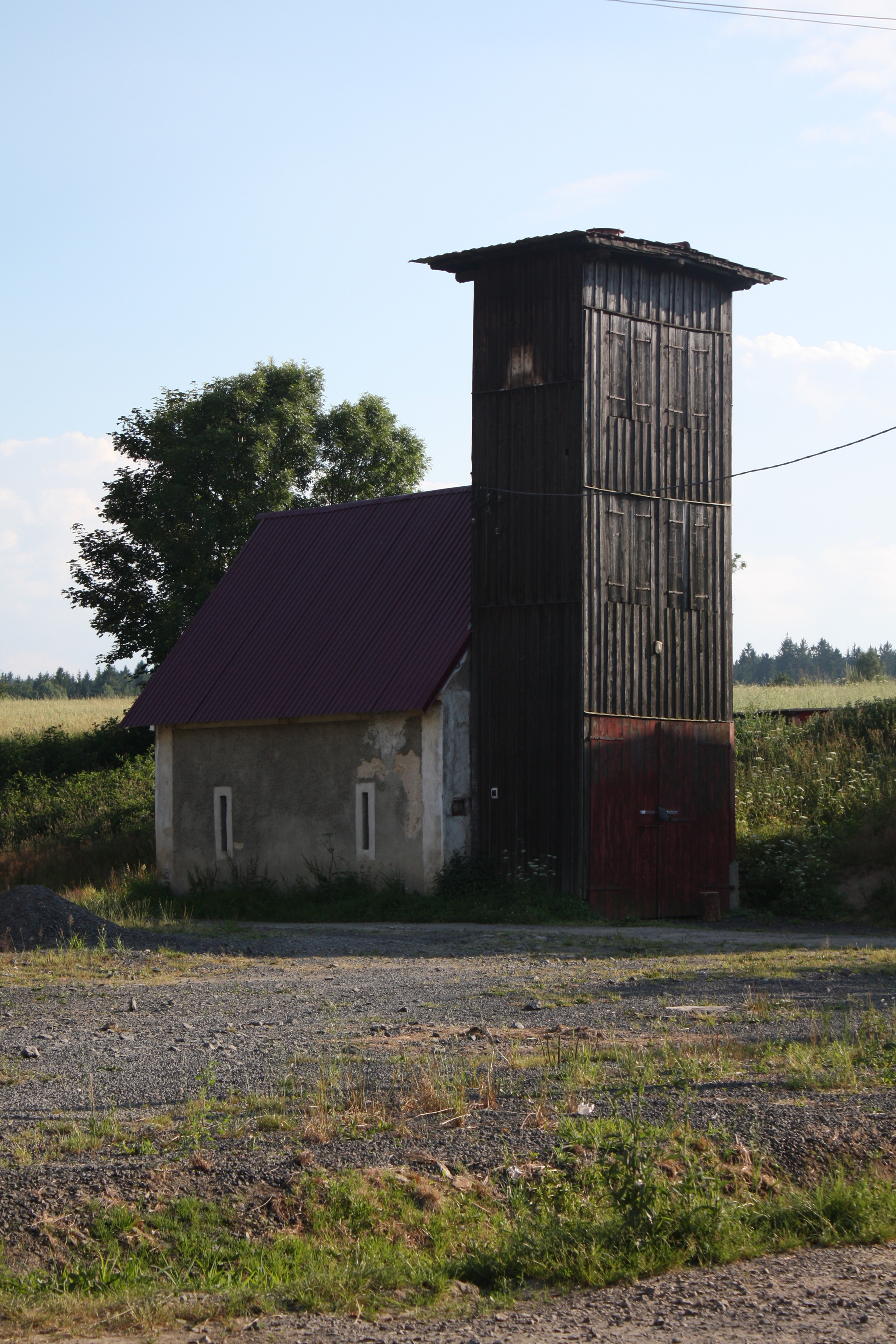 This photo of Lower Silesian Voivodeship was taken during Wikiexpedition 2013 set up by Wikimedia Polska Association. You can see all photographs in category Wikiekspedycja 2013. English | Polski | +/−